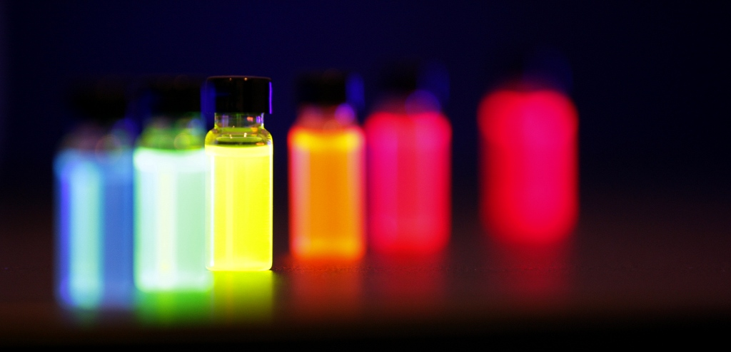 Photograph of several vials of eFluor Nanocrystals under black light excitation.